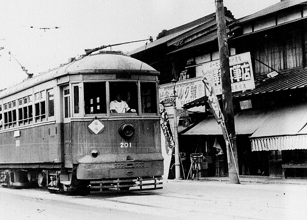 Hakone Tozan Railway Odawara City Line